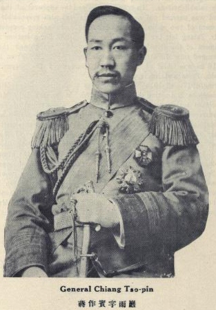 Jiang Zuobin, Yuyan (1884 - 1942)